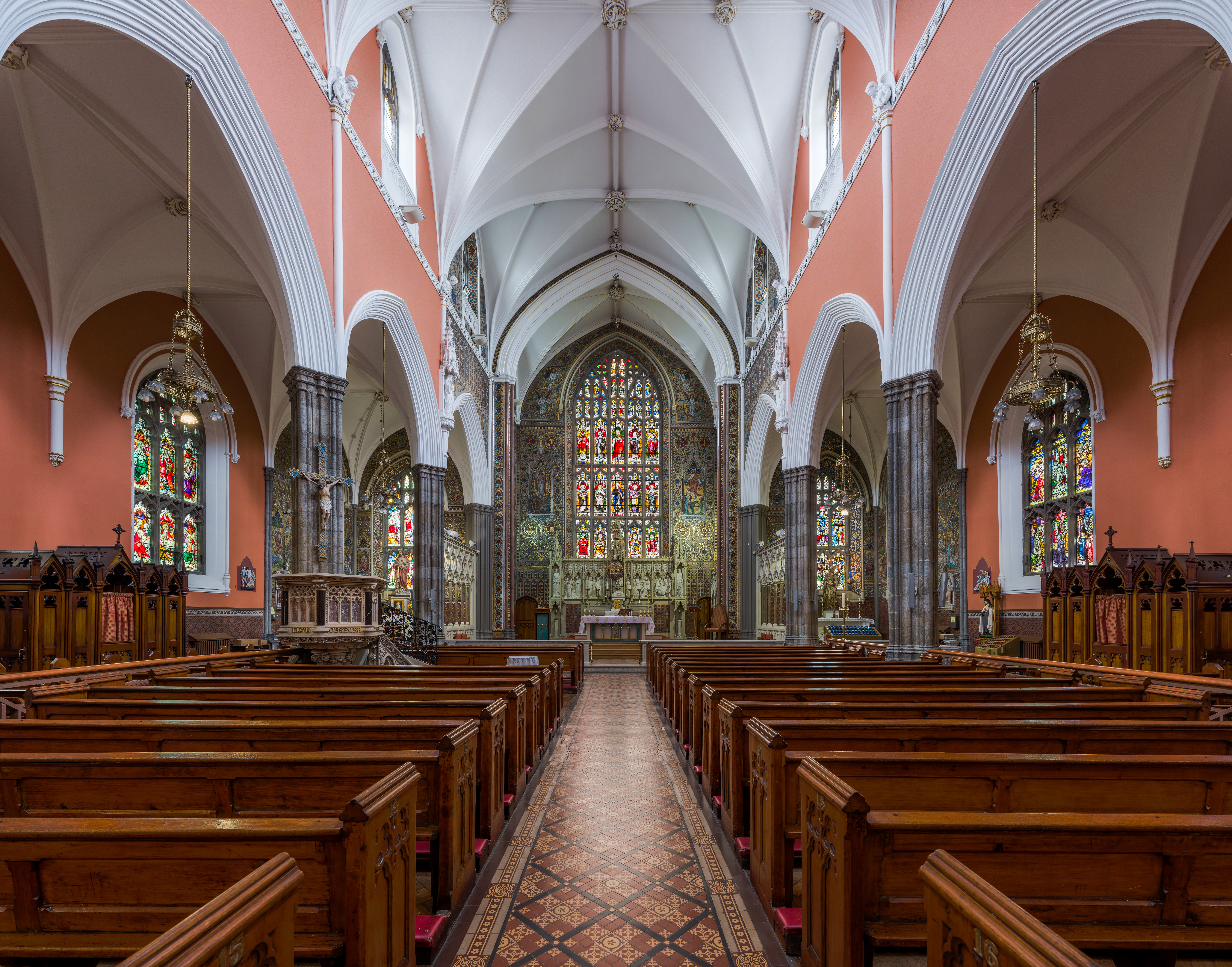 The nave of St Patrick's Church in Dundalk, Ireland.